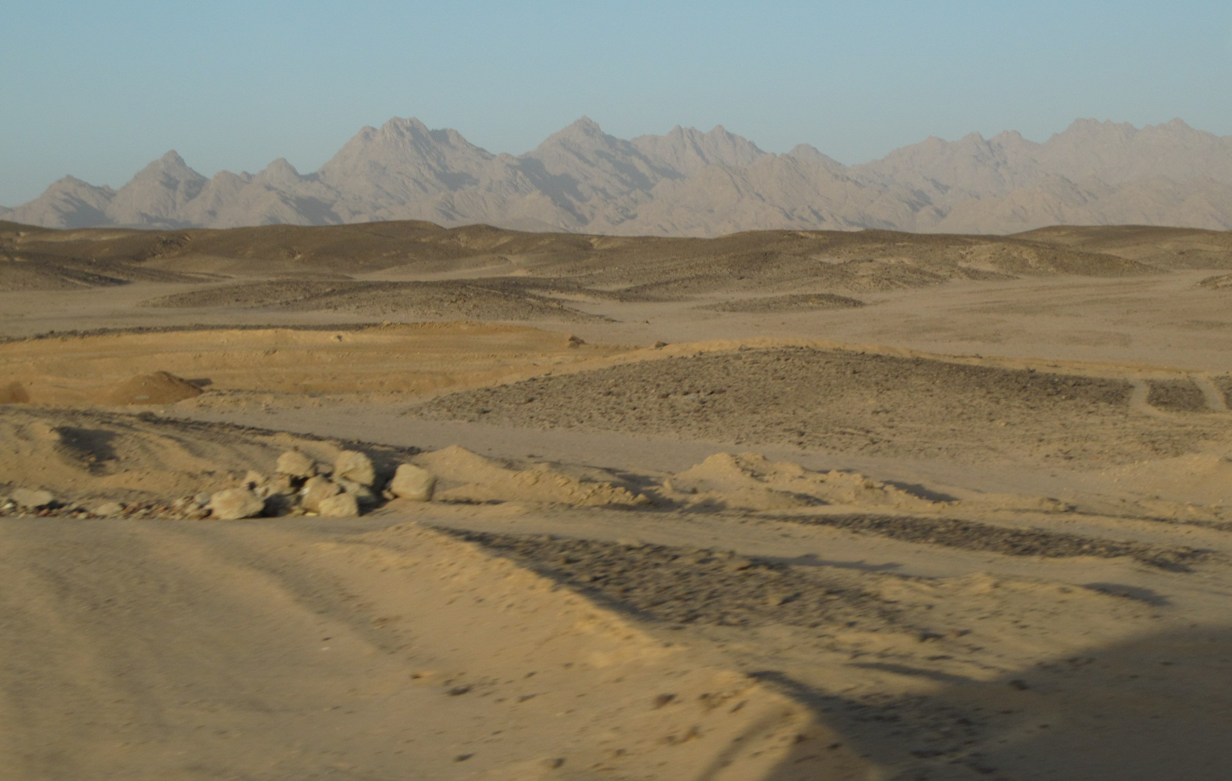 Eastern Desert mountains